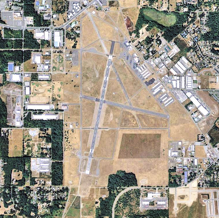 USGS digital orthophoto of Olympia Regional Airport in the U.S. state of Washington